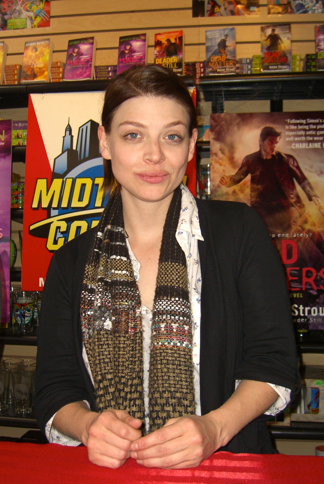 Buffy the Vampire Slayer star, director, producer and novelist Amber Benson at Midtown Comics Downtown in Manhattan, where she signed autographs and posed for photographs with fans while promoting her book, Serpent’s Storm.